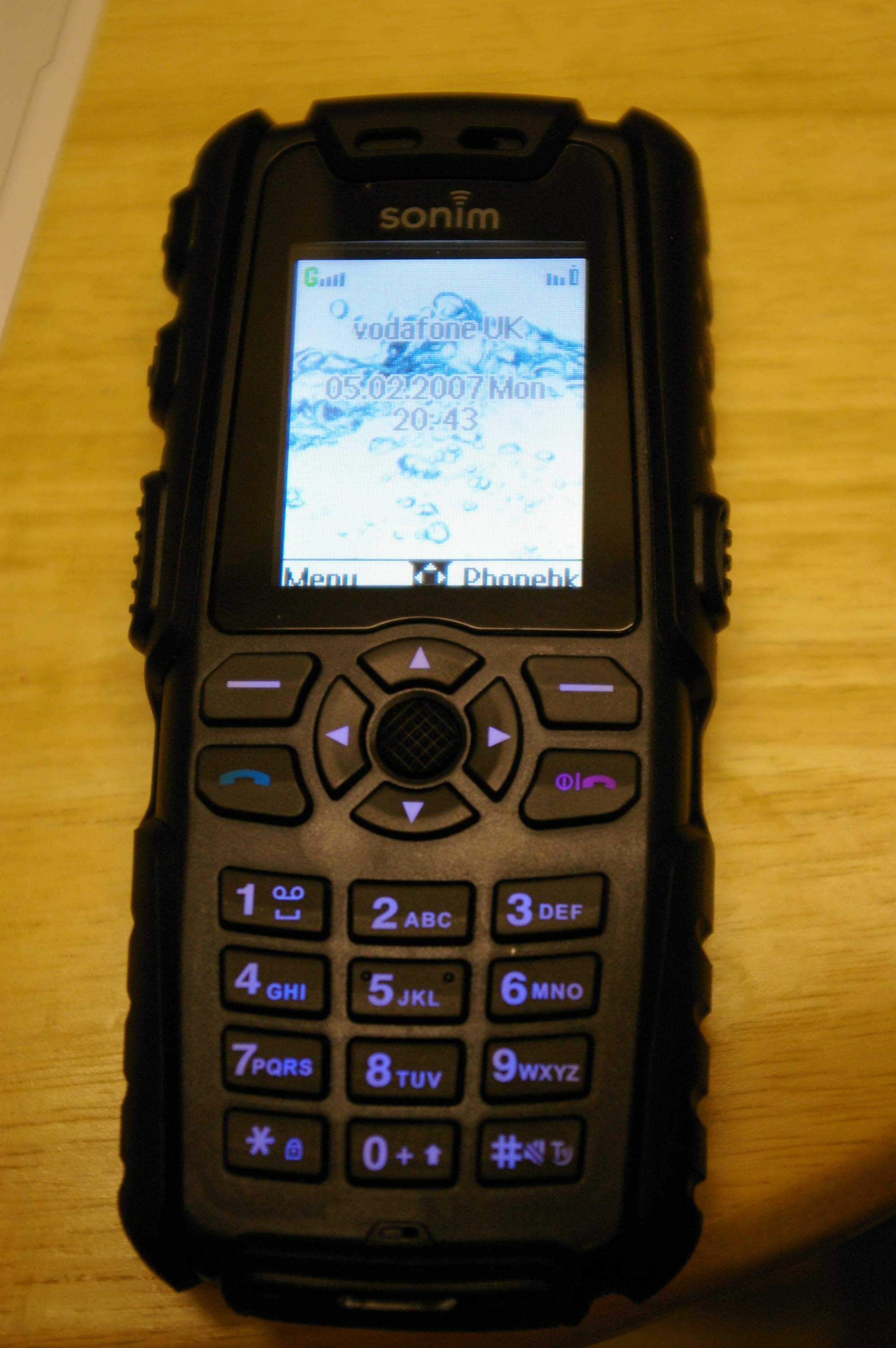 Sonim XP3 unboxing and comparison